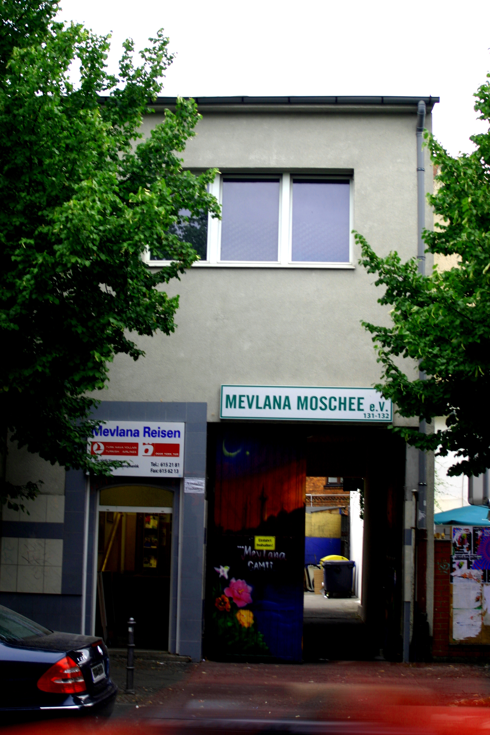 Mavlena-mosque in Berlin-Kreuzberg near Kottbusser Tor